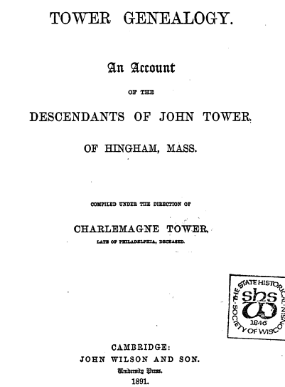 Frontispiece of the Tower Genealogy, An Account of the Descendants of John Tower of Hingham, Massachusetts, overseen by Charlemagne Tower, published by John Wilson & Son, Cambridge, Massachusetts, 1891.